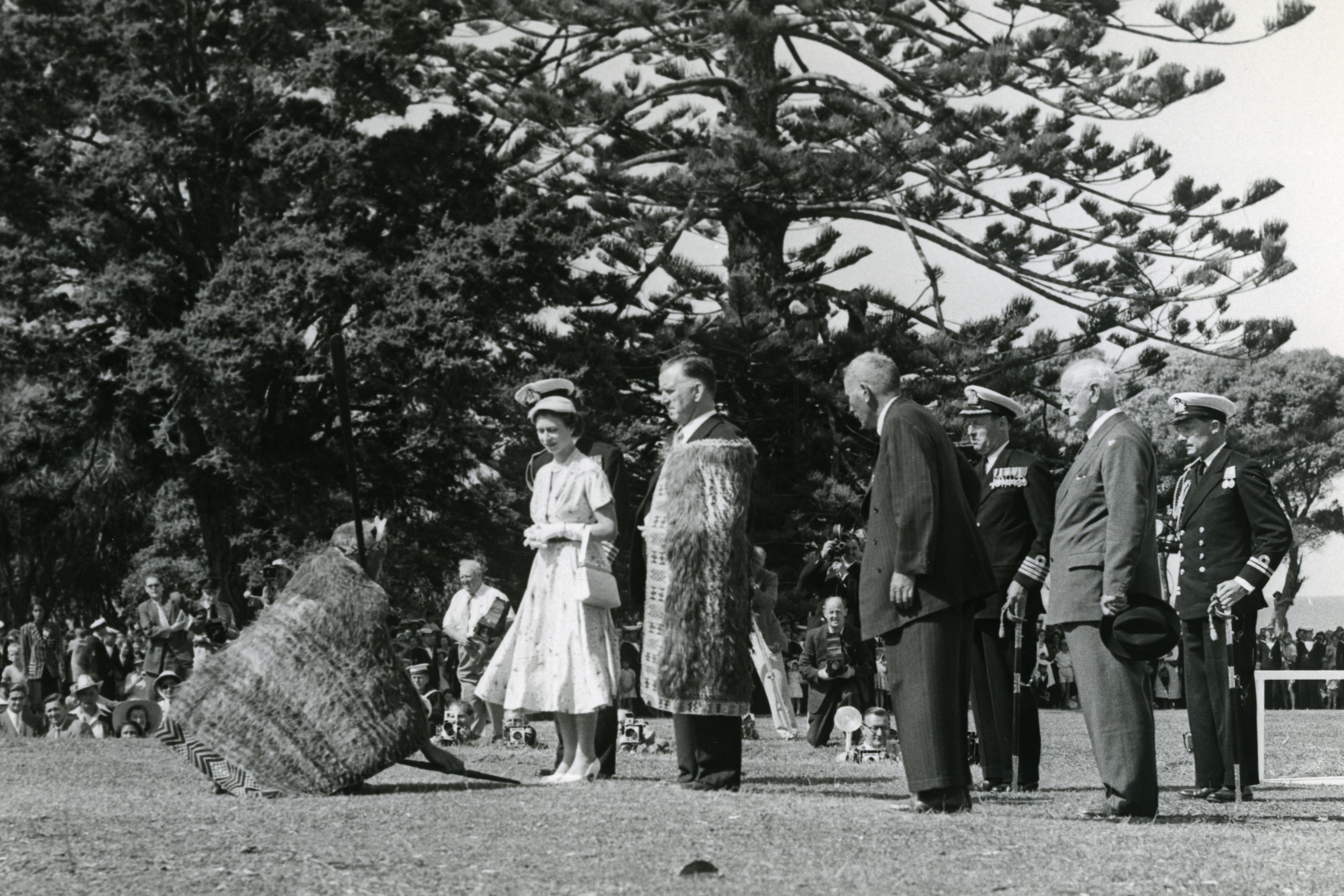 Elizabeth II is pictured here on the Royal Tour of New Zealand of 1953/54. The image is sourced from Communicate New Zealand - National Archives - CNZ Collection. Archives New Zealand Reference: AAQT 6538 W3537 box 1